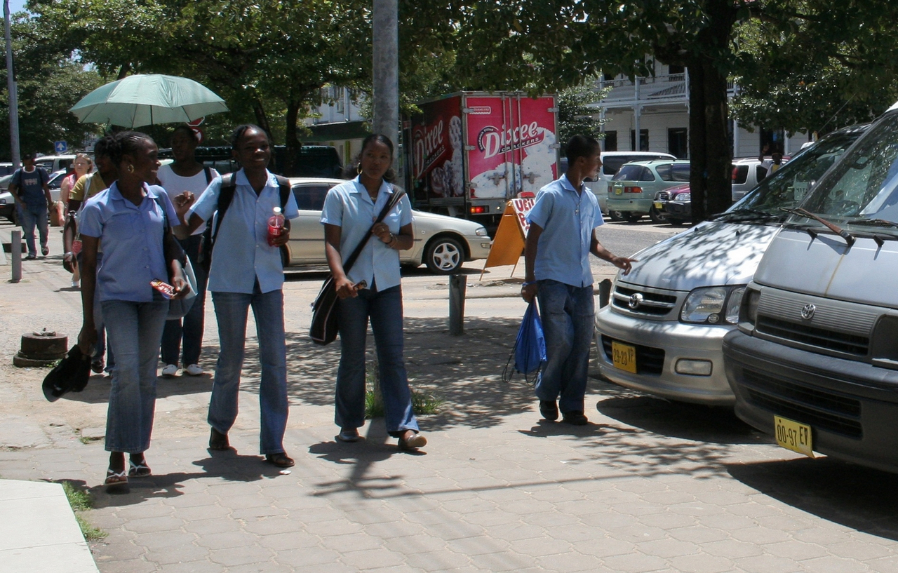 Suriname Paramaribo. School dress.